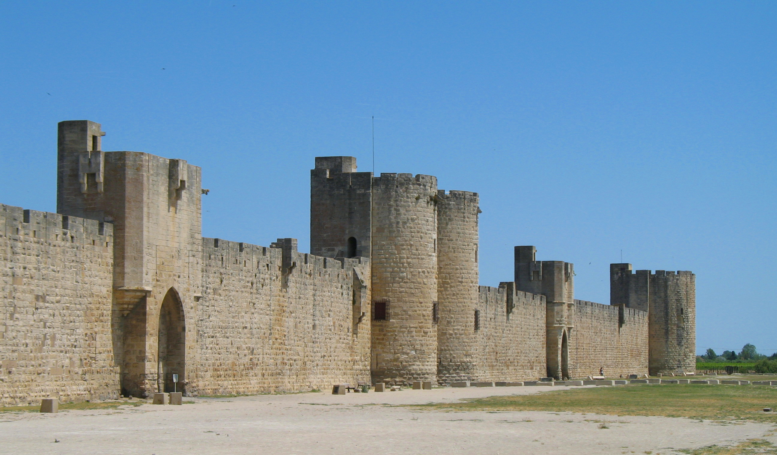 Medieval town walls of Aigues-Mortes (département du Gard, France)